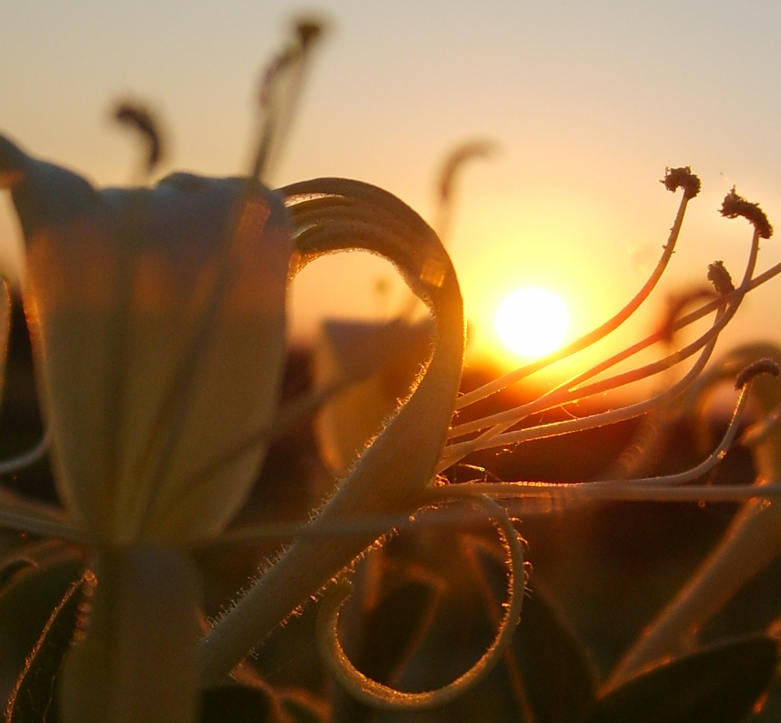 Honeysuckle flower in the light